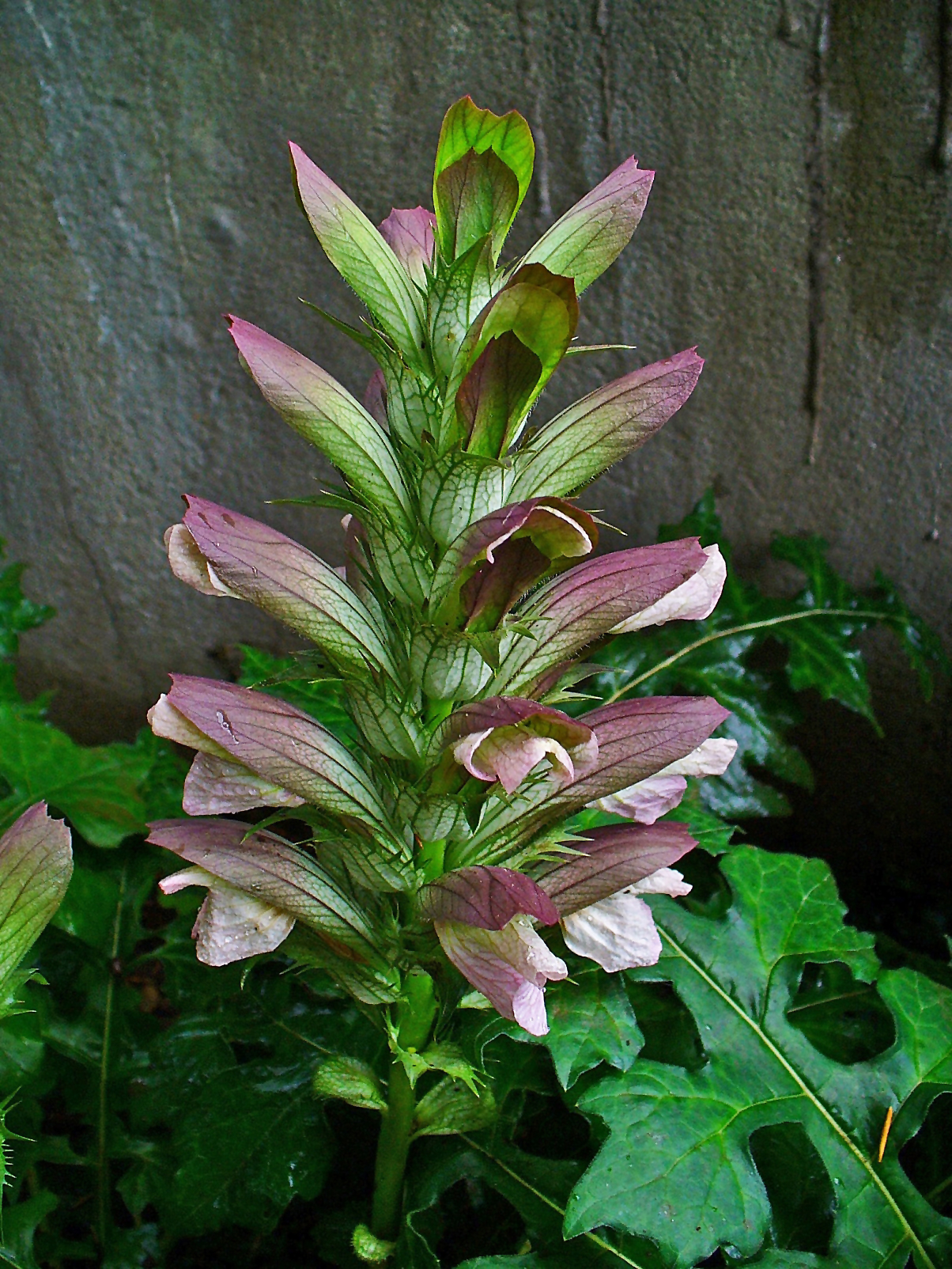 Long-leaved Bear's Breech, inflorescence; Botanical Garden KIT, Karlsruhe, Germany.